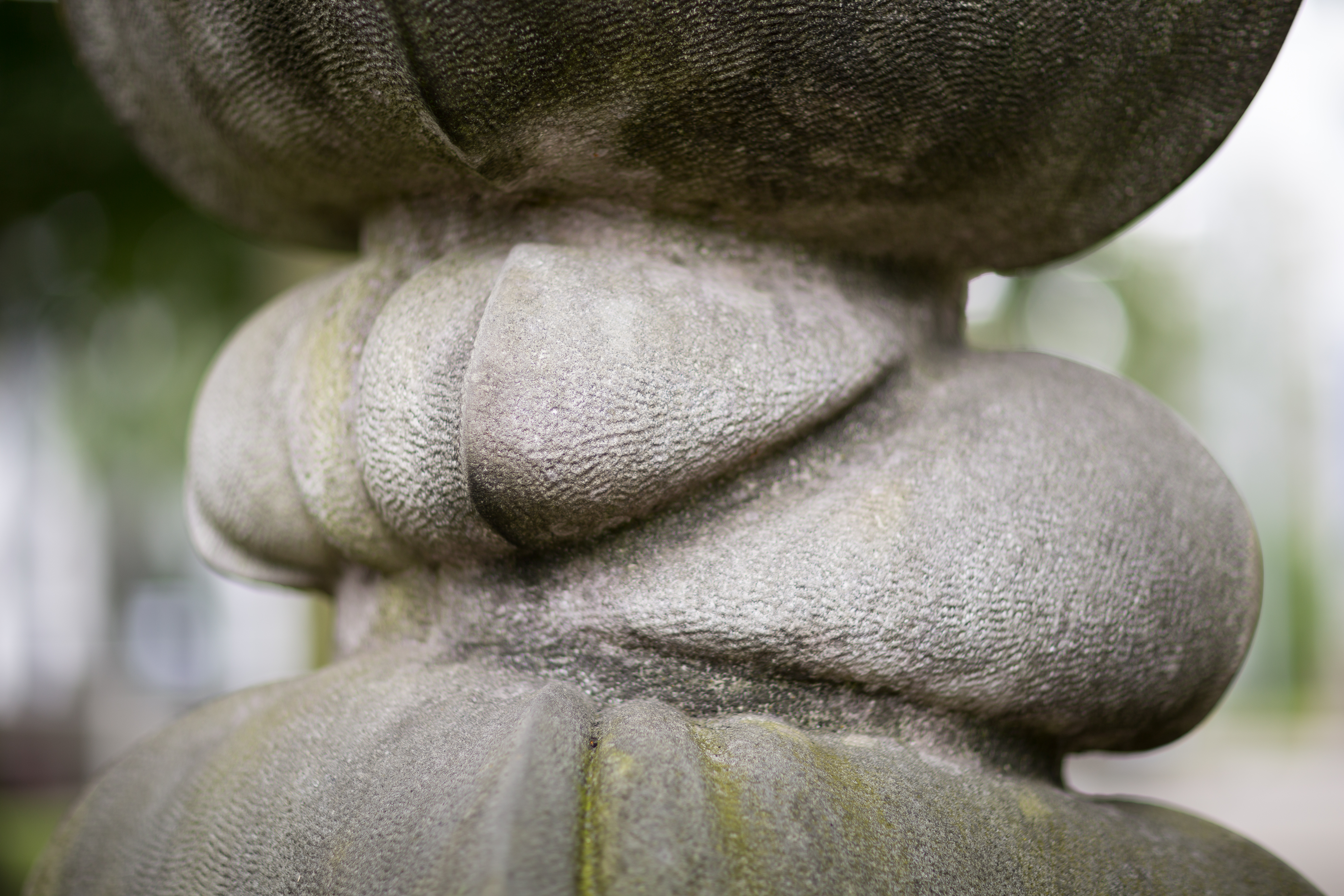 Sculpture "Einschnuerung" (= strangling) by Otto Almstadt (*1940) located at the entrance of the zoo in Hanover, Germany.